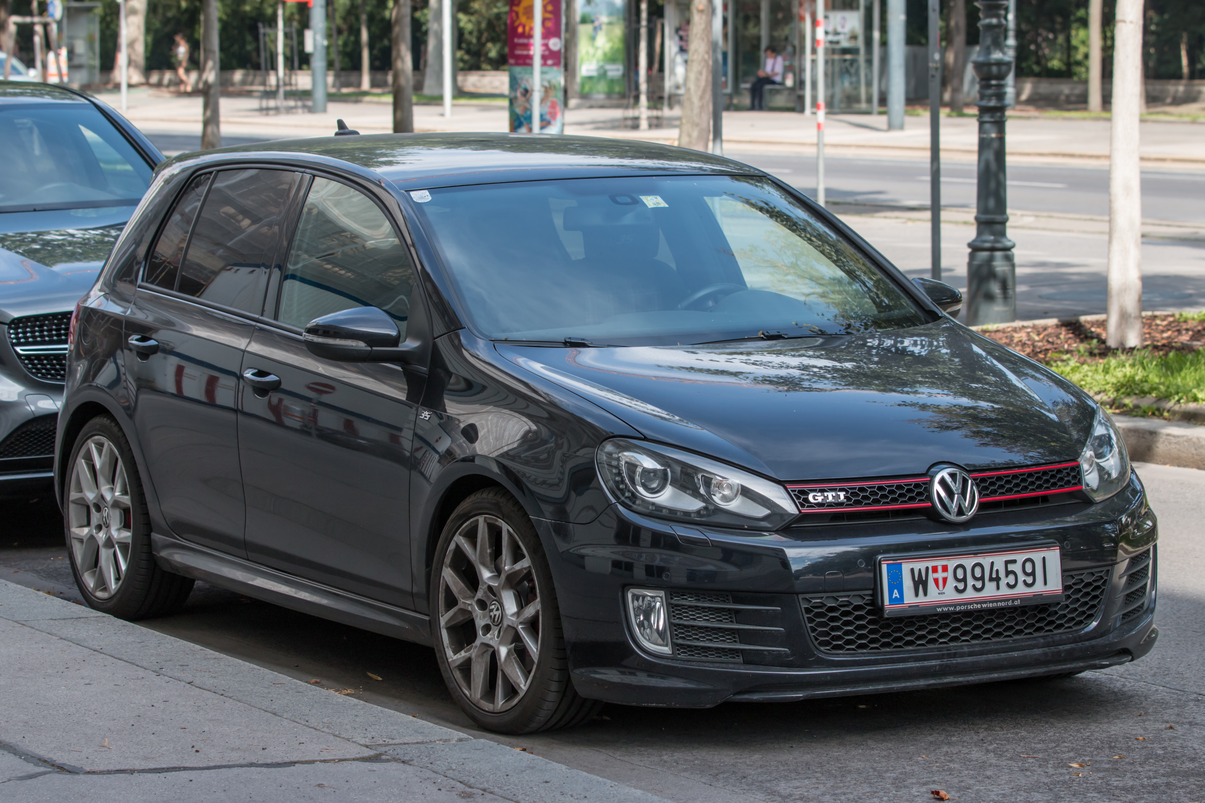 VW Golf VI GTI Edition 35